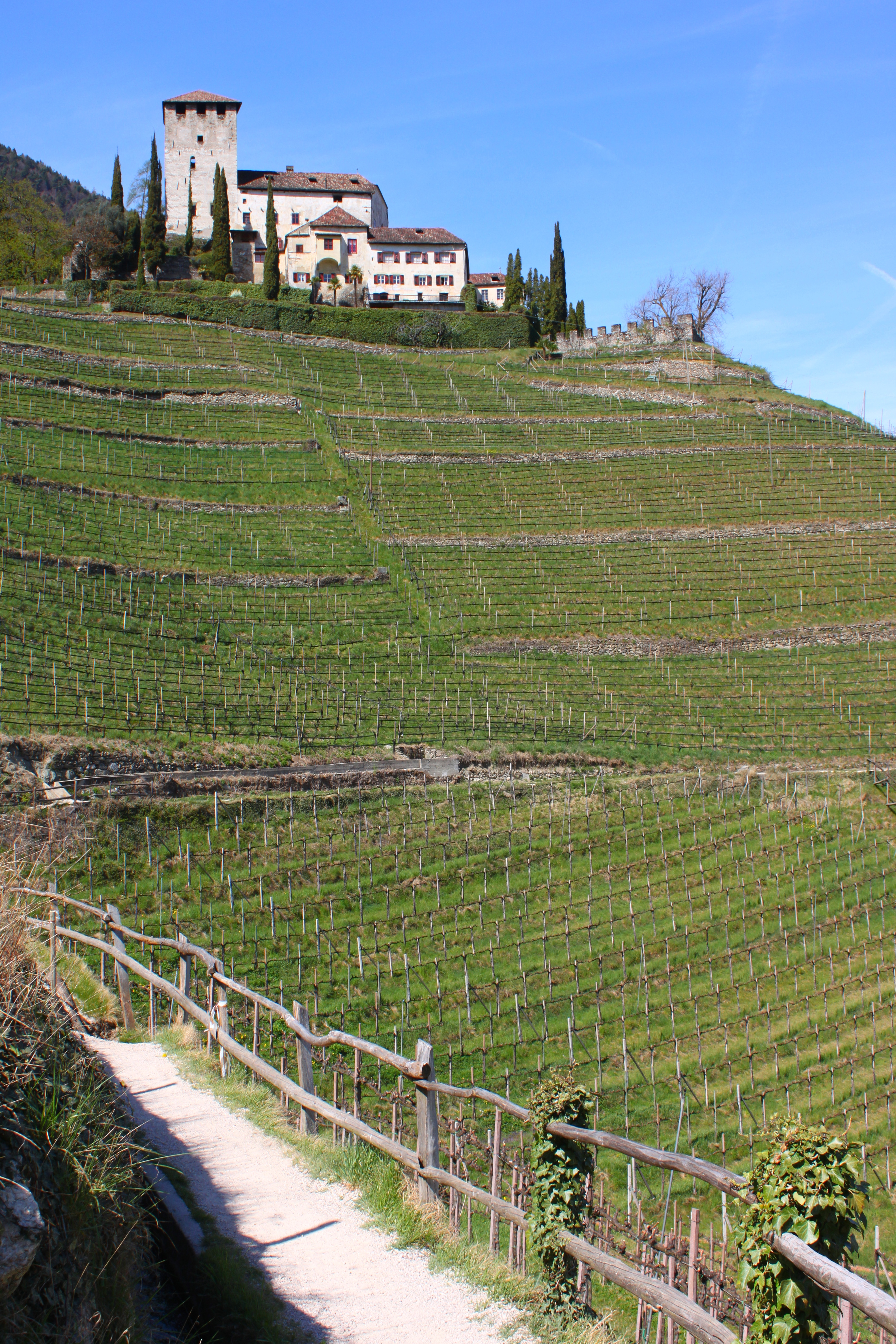 View from Marl Waalweg over the vineyard at Castle Lebenberg